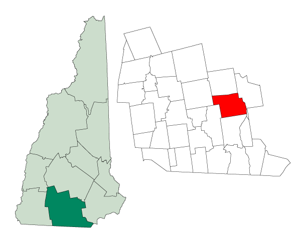 Map of a municipality in Hillsborough County, New Hampshire